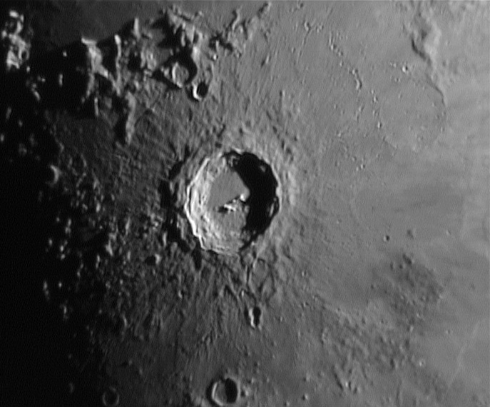 Lunar crater Copernicus. Image taken at the Johannes-Kepler-Observatory, Linz, Austria, on 2004 March 30, using a Mintron 12V1C-EX B&W video camera on a 500mm f/10 Cassegrain telescope (focal legth 5000mm).